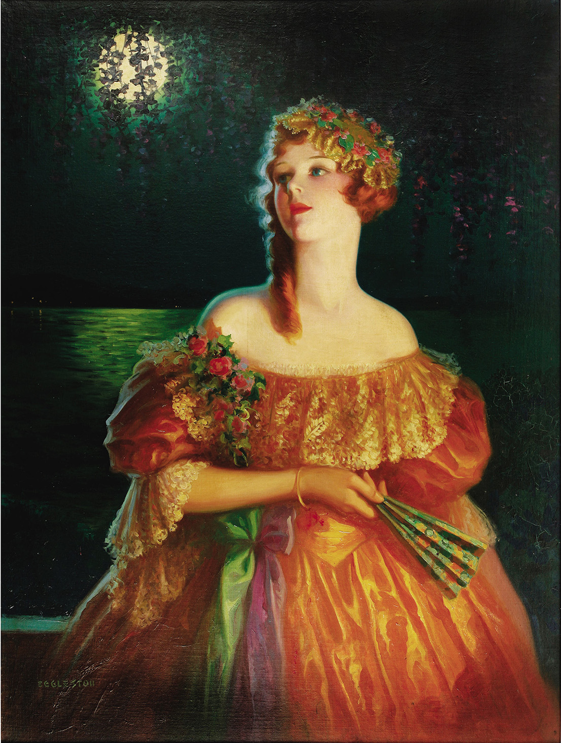 "Dixie" or the "Sweetheart of Sigma Chi", 1919 by Edward Mason Eggleston, from original oil painting. Printed for a 1920s calendar by Brown & Bigelow, using Tintogravure. This image uploaded at half the resolution of the image taken by Heritage Auctions of the original painting.